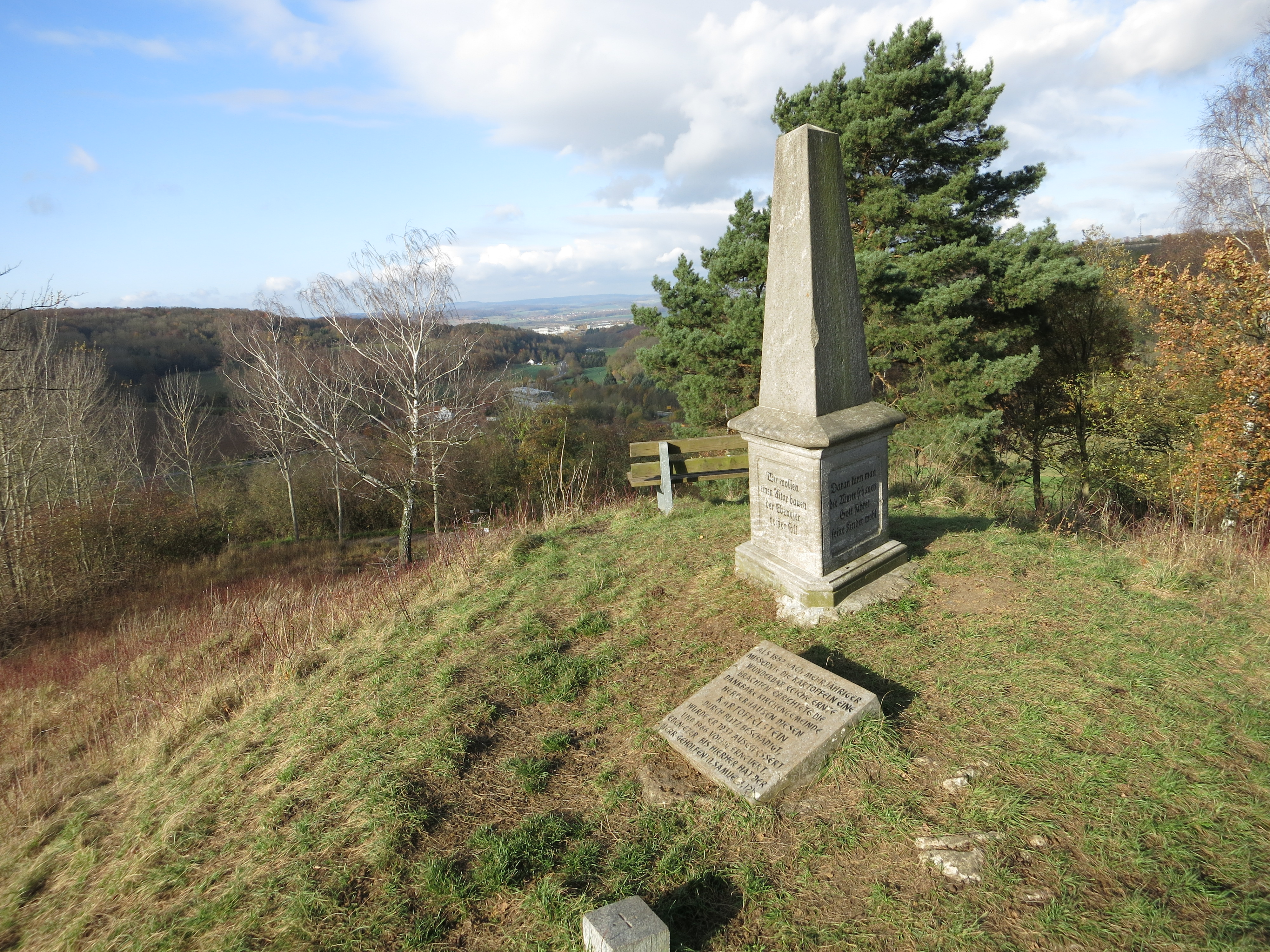 Kartoffelstein, monument near Goettingen-Herberhausen